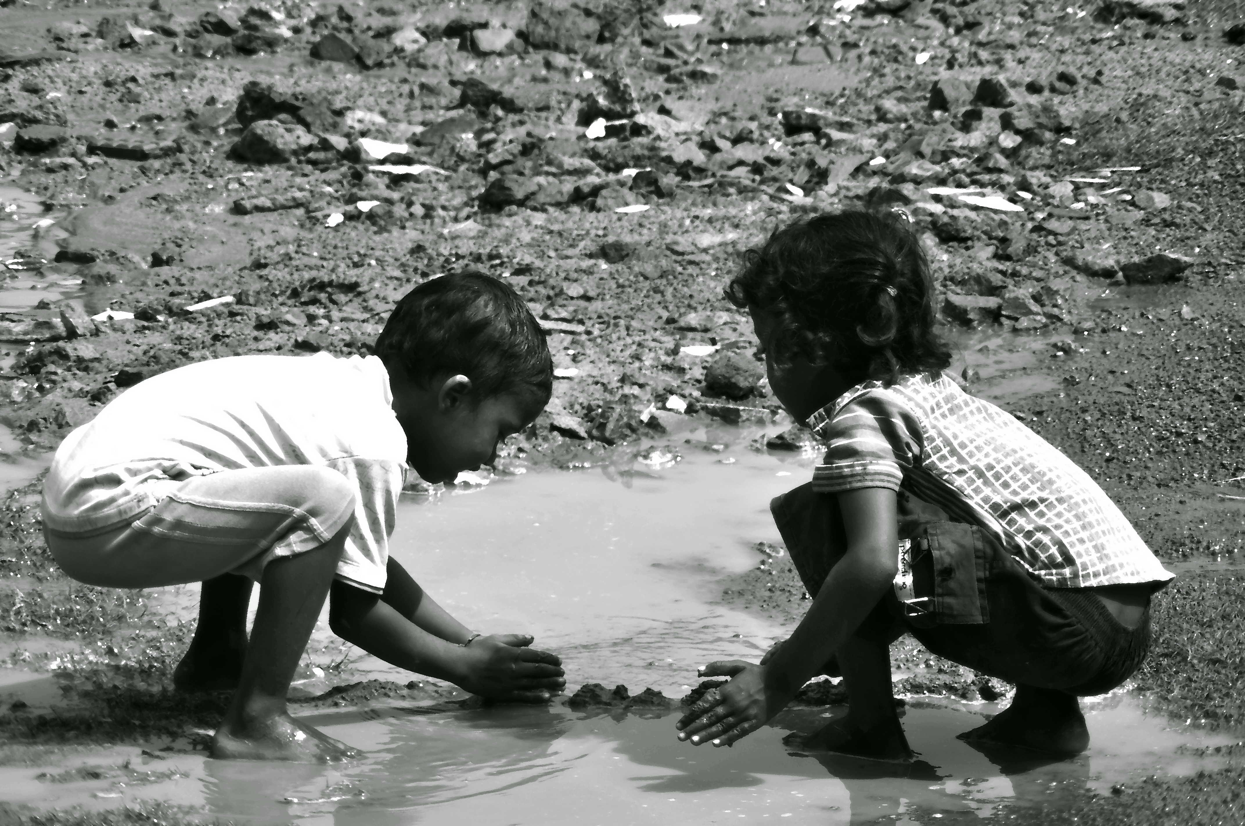 "In every real man a child is hidden that wants to play." - Friedrich Nietzsche [At Santiniketan, Birbhum, West Bengal, India]